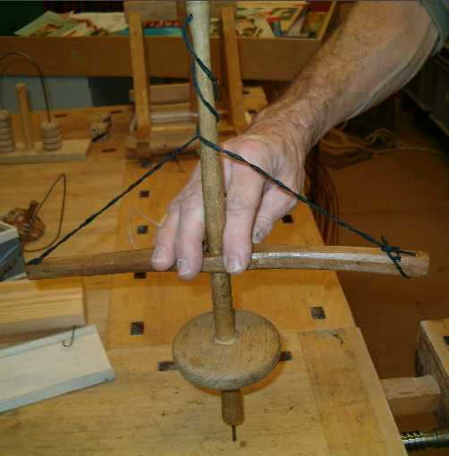 Pump drill - reconstruction of model as used from Viking Age to Medieval times